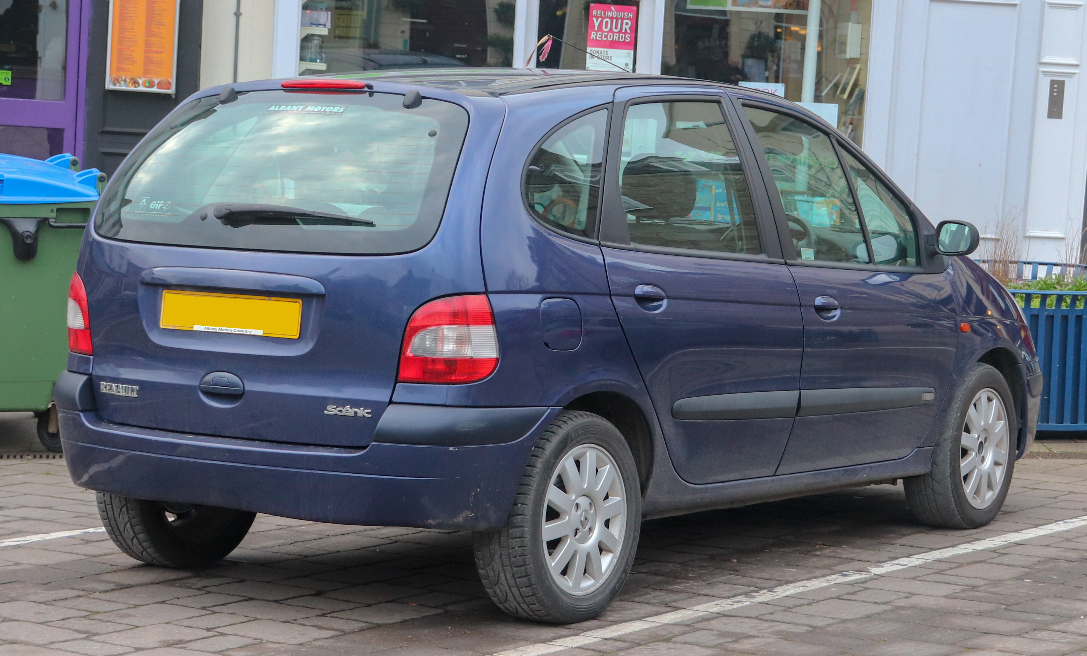 2003 Renault Megane Scenic Fidji 16V 1.6 Rear Taken in Warwick